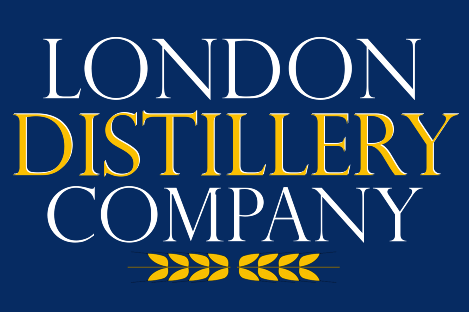 The London Distillery Company initial logo designed by Darren Rook as an interim while raising funding to build London's first whisky distillery in over 100 years.